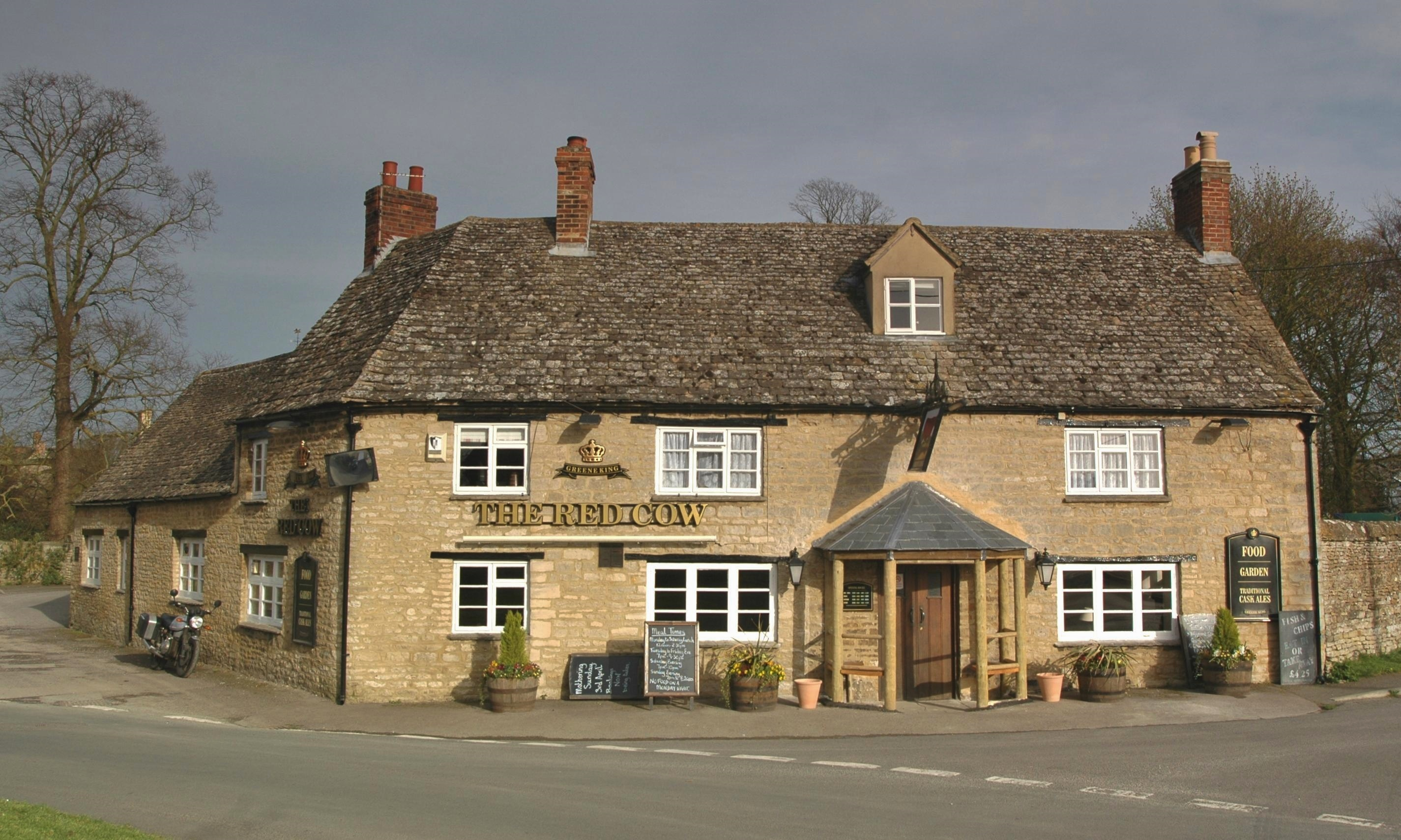 The Red Cow public house, Chesterton, Oxfordshire, seen from the west